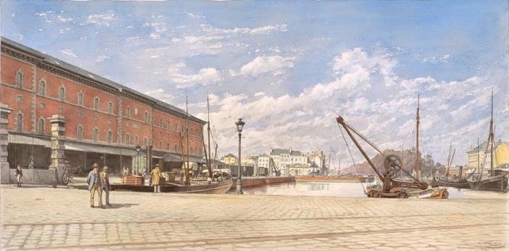 Aquarel painting by Jacques Cabarain of the old Brussels (entrepôt et Grand Bassin)